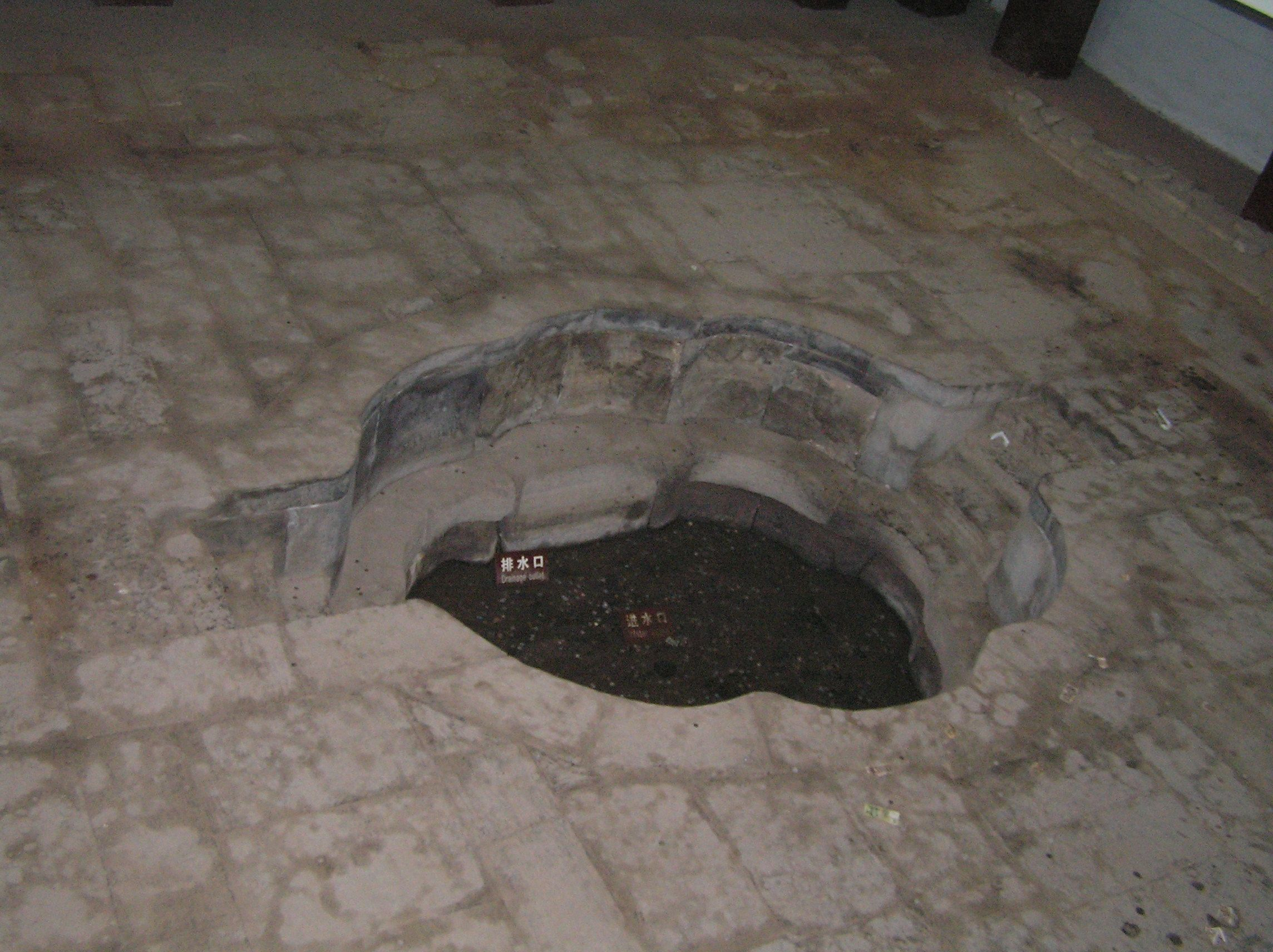 The oldest known hot spring pool, built in the Qin dynasty in the 3rd century BC. It was found in an archeological dig under the HuaQing Chi （华清池） resort on Lisan mountain, China.